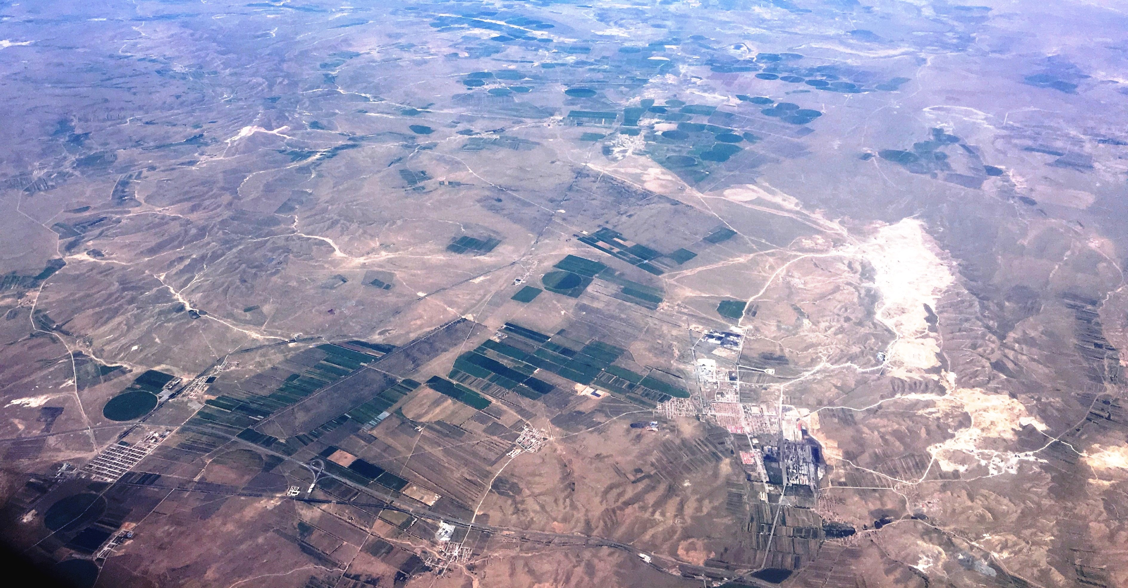 Niumingcun (left) and Guangmingcun (right) villages, With the enormous open-pit mine and metallurgical Works to the right. Chahar Right Back Banner county, Ulanqab District - Inner Mongolia.